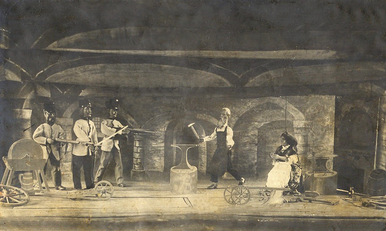 Rudol Kaiser puppet theatre, Czechoslovakia 1928